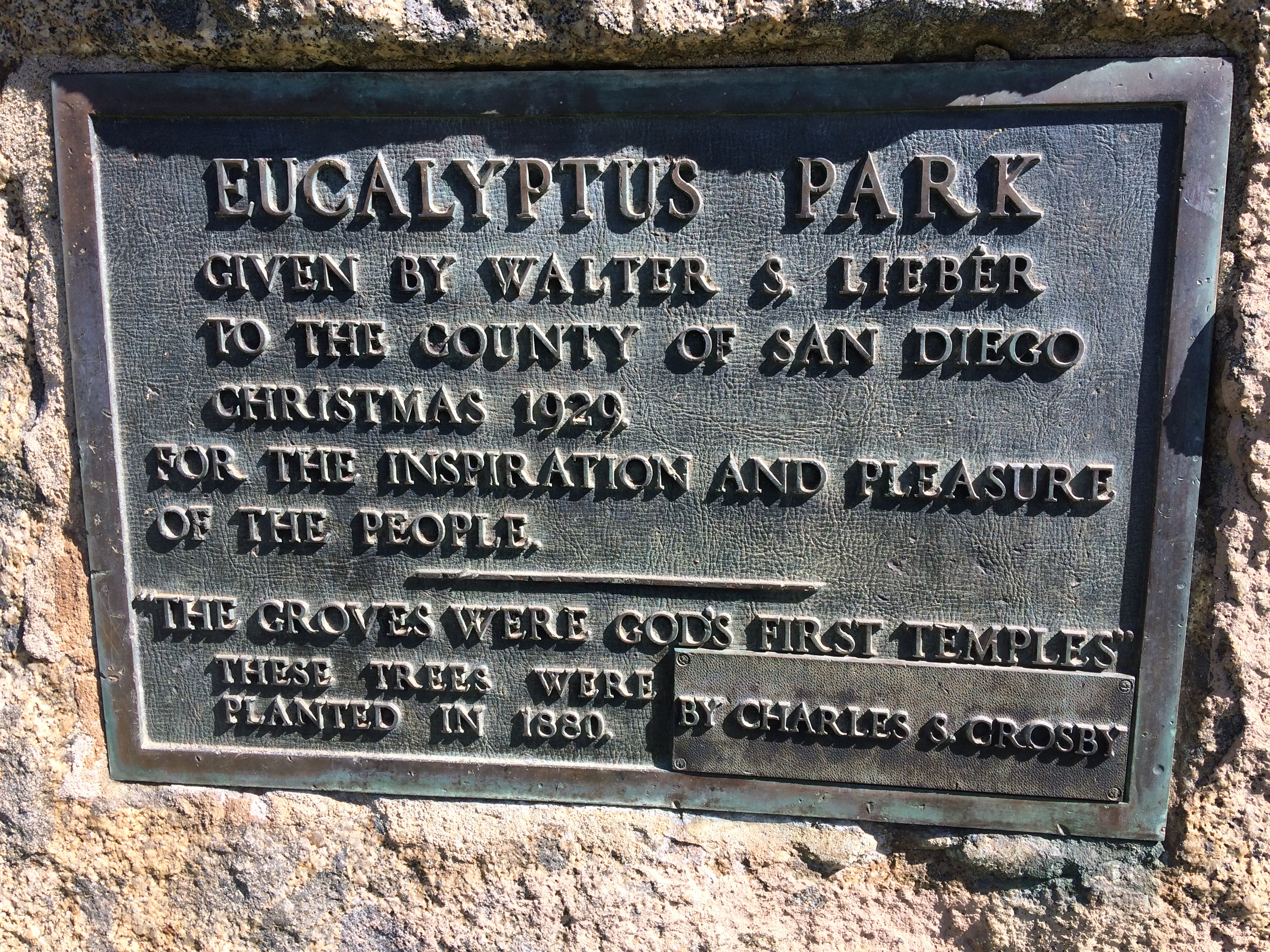 Charles S Crosby planted dozens of eucalyptus trees here in this magical place. Walter S Lieber donated the entire property for the inspiration pleasure of the community.